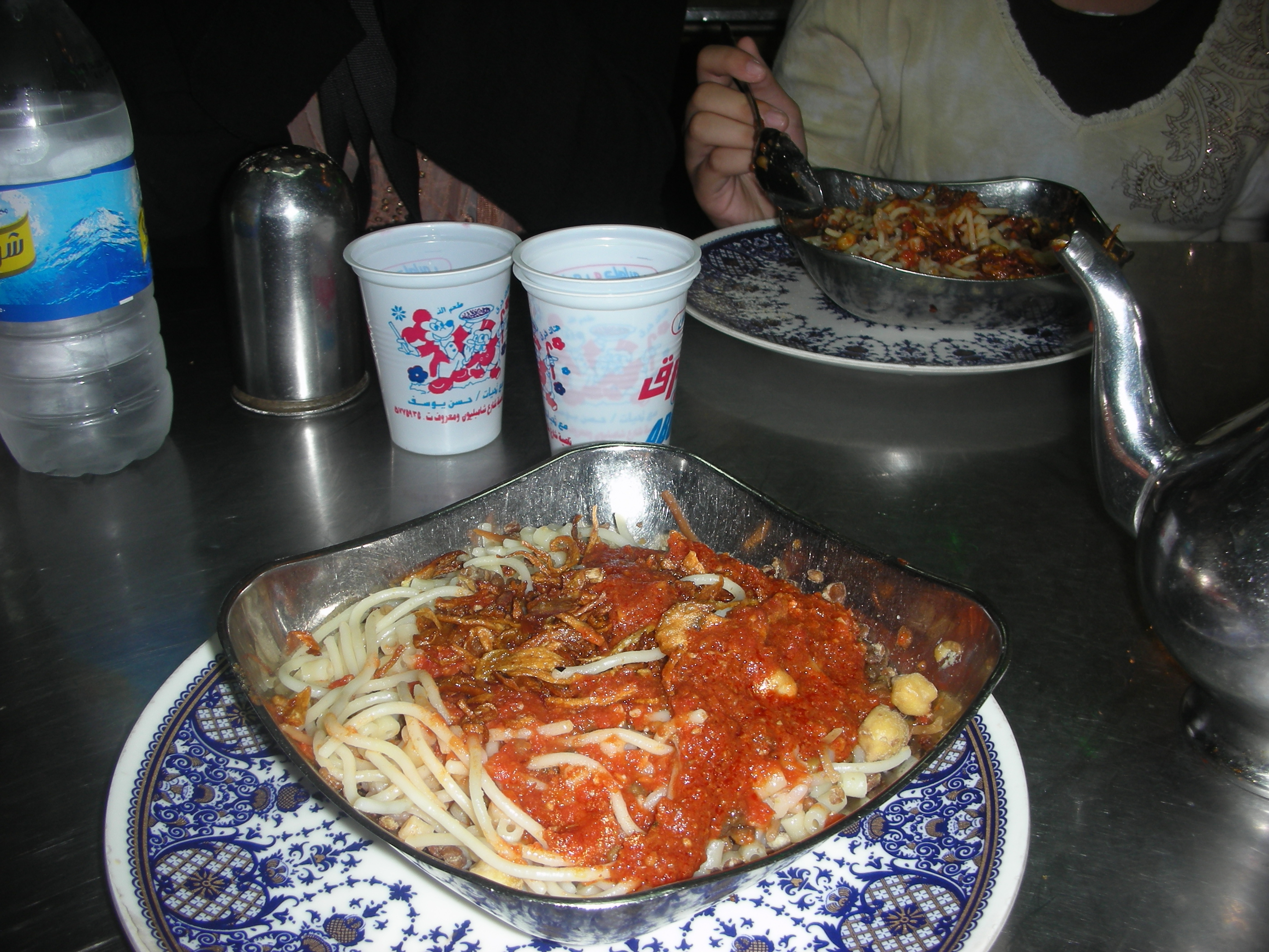 Koshari served at Abu Tariq Restaurant, Cairo, Egypt